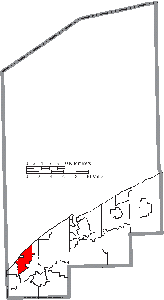 Map of the municipal and township boundaries of Lake County, Ohio, United States, as of the 2000 census, with the location of the city of Eastlake highlighted. Township borders are shown only in unincorporated areas in order to differentiate incorporated and unincorporated areas more clearly.